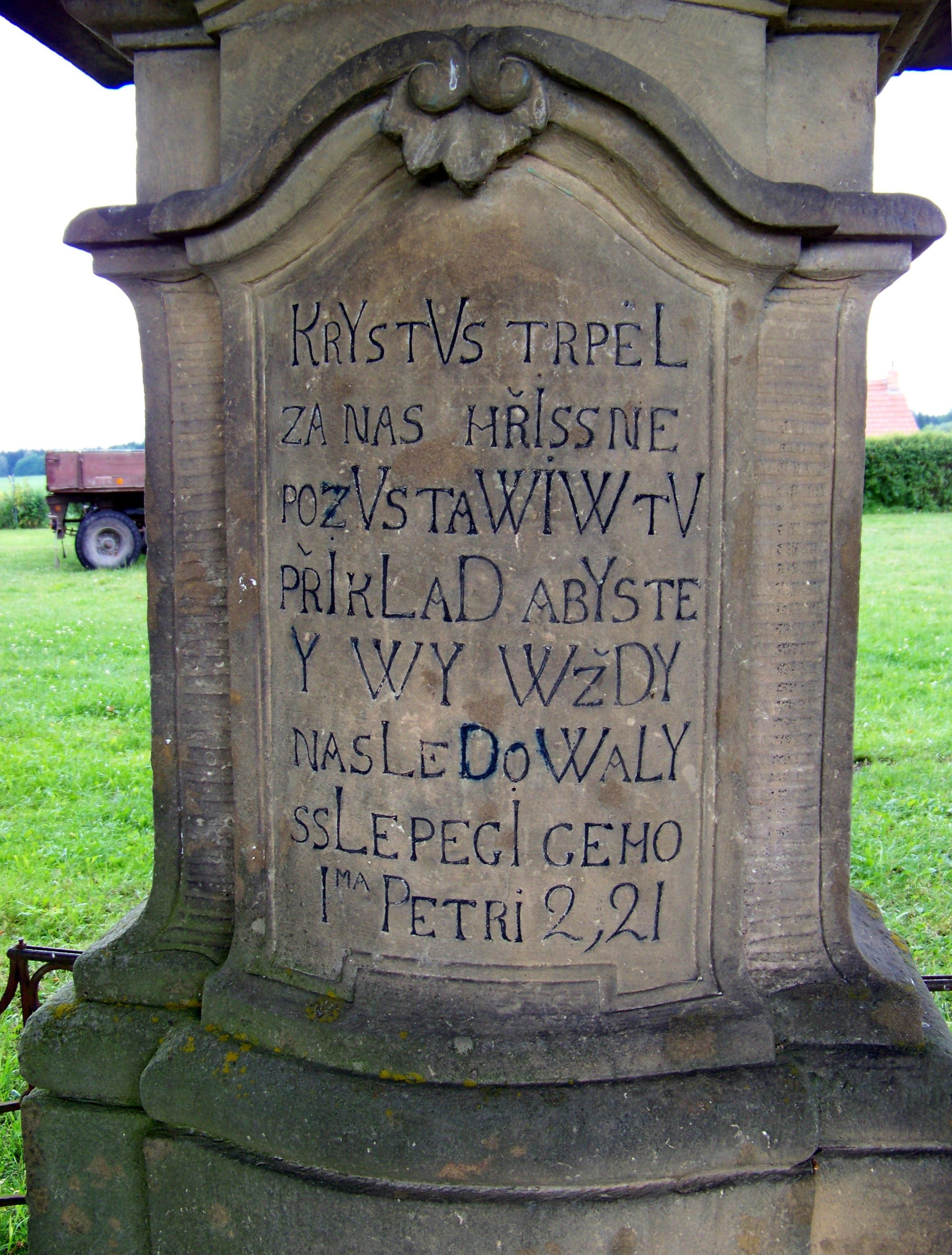 Horní Jelení-Dolní Jelení, Pardubice District, Pardubice Region, the Czech Republic. A cross.